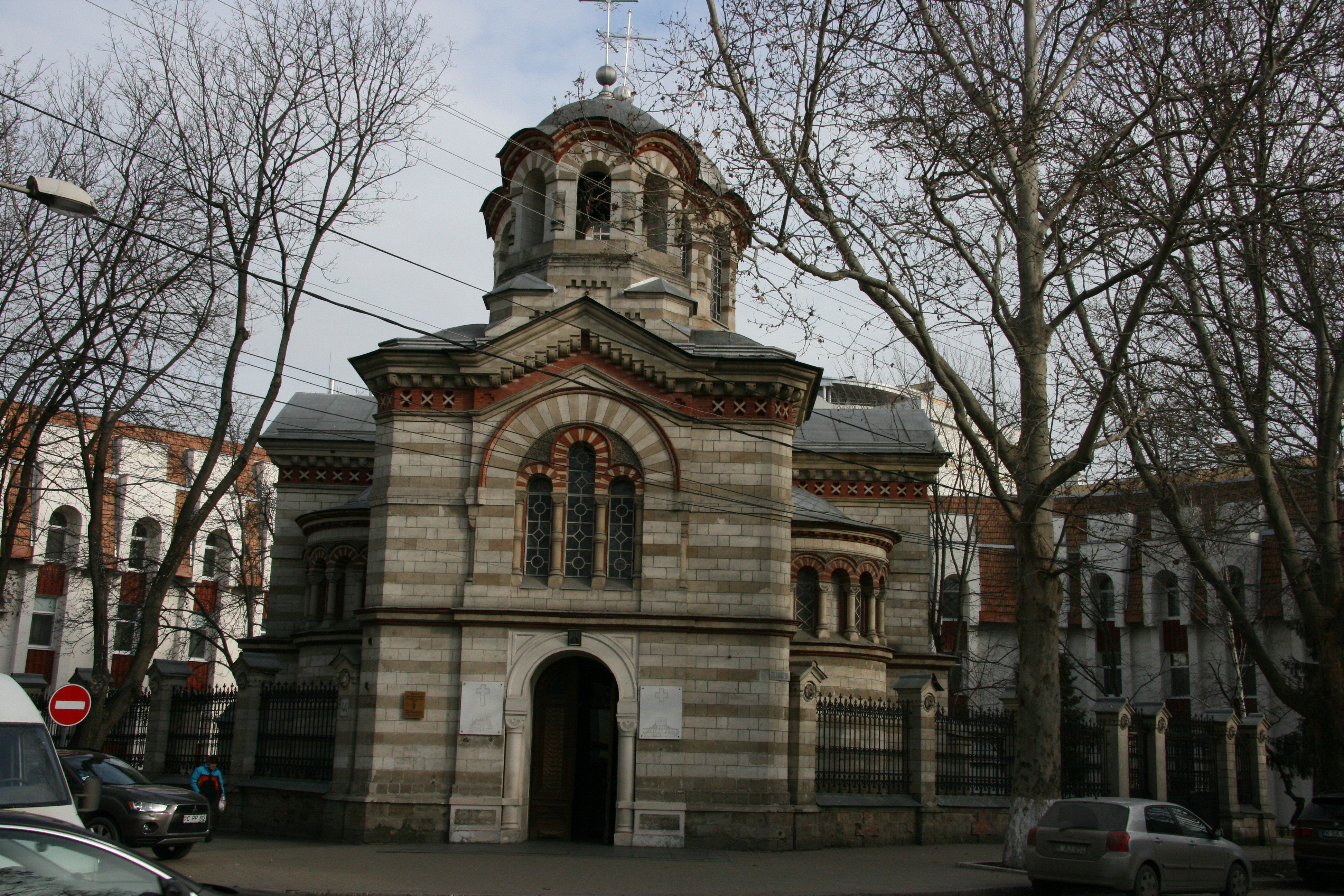 Picture of Sf. Pantelimon greek church, situated in Vlaicu Pârcălab 42 street, Chișinău.